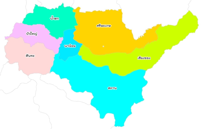 แผนผังแสดงเขตการปกครองส่วนท้องถิ่นของอำเภอนาน้อย